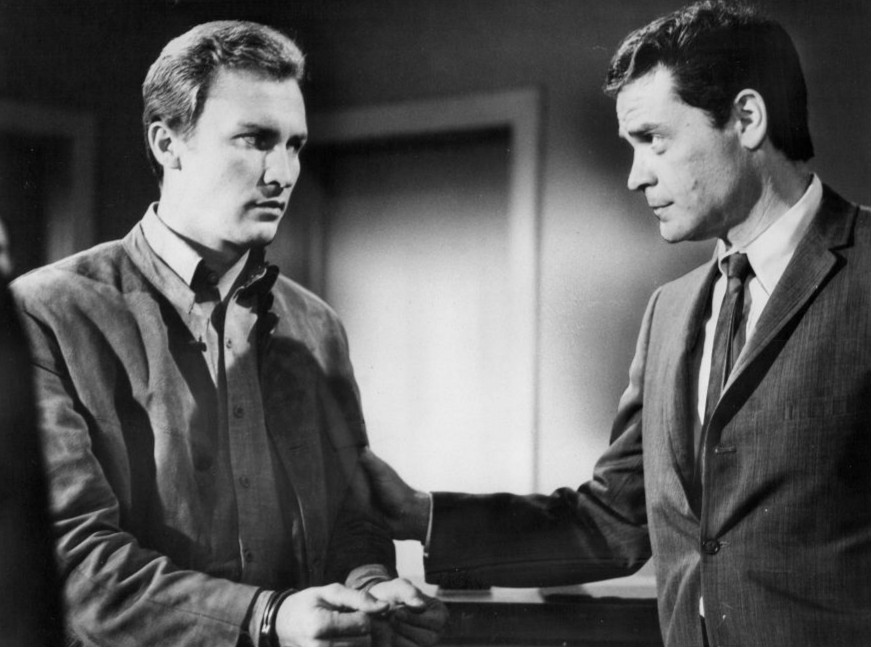 Photo of Roy Thinnes (left) and Lee Farr in a scene from the science fiction television program The Invaders.